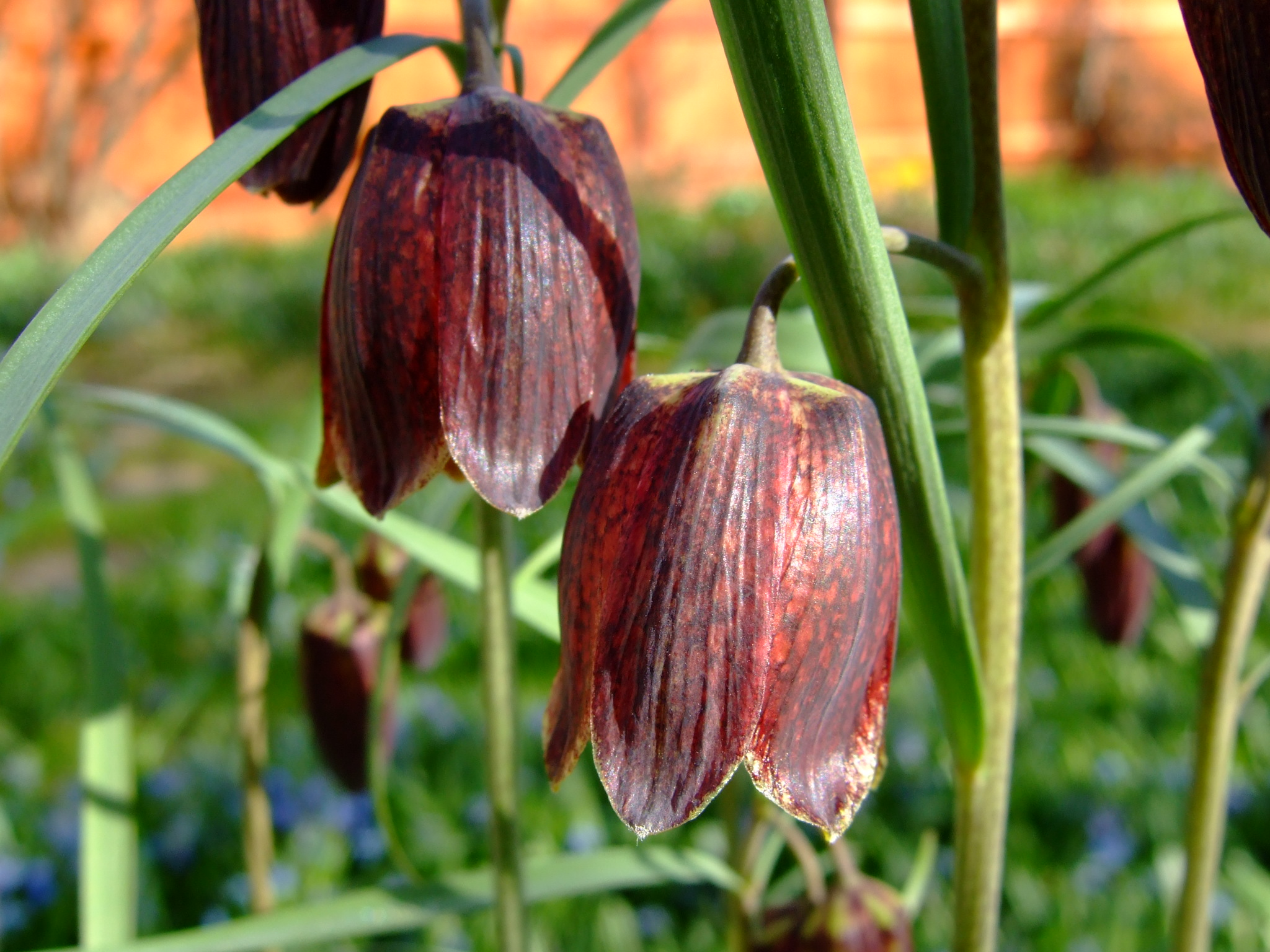 Fritillaria ruthenica